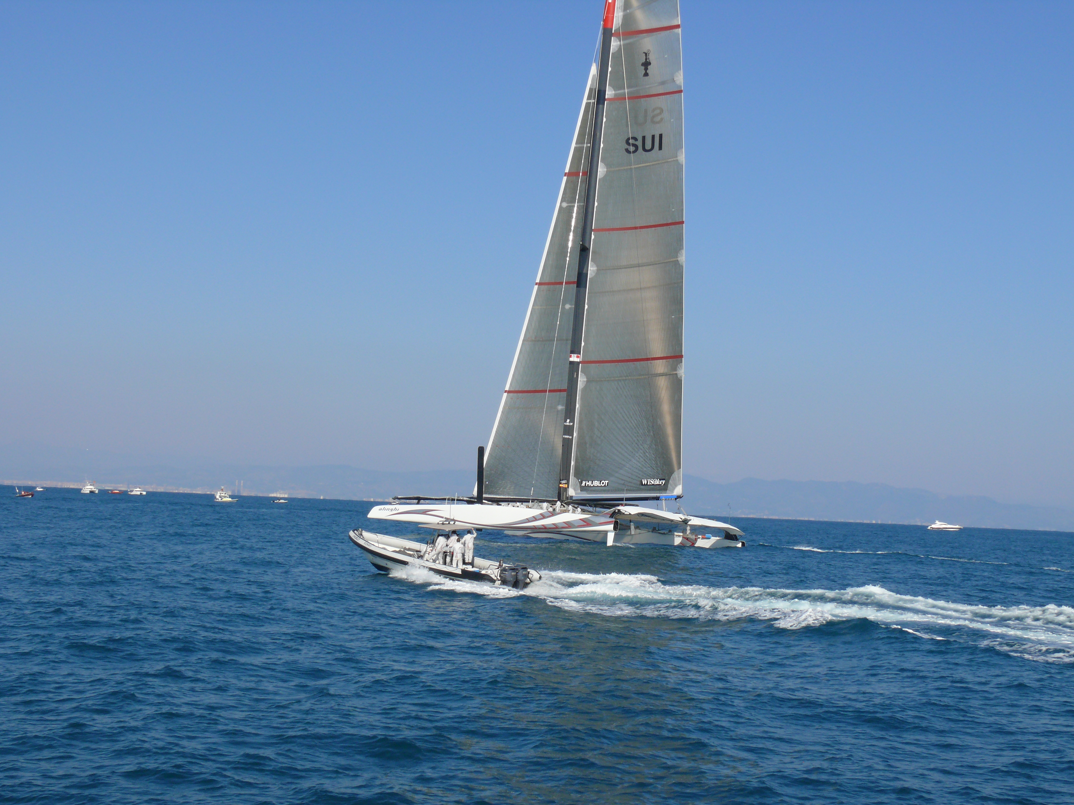 33rd America's Cup Valencia, Spain